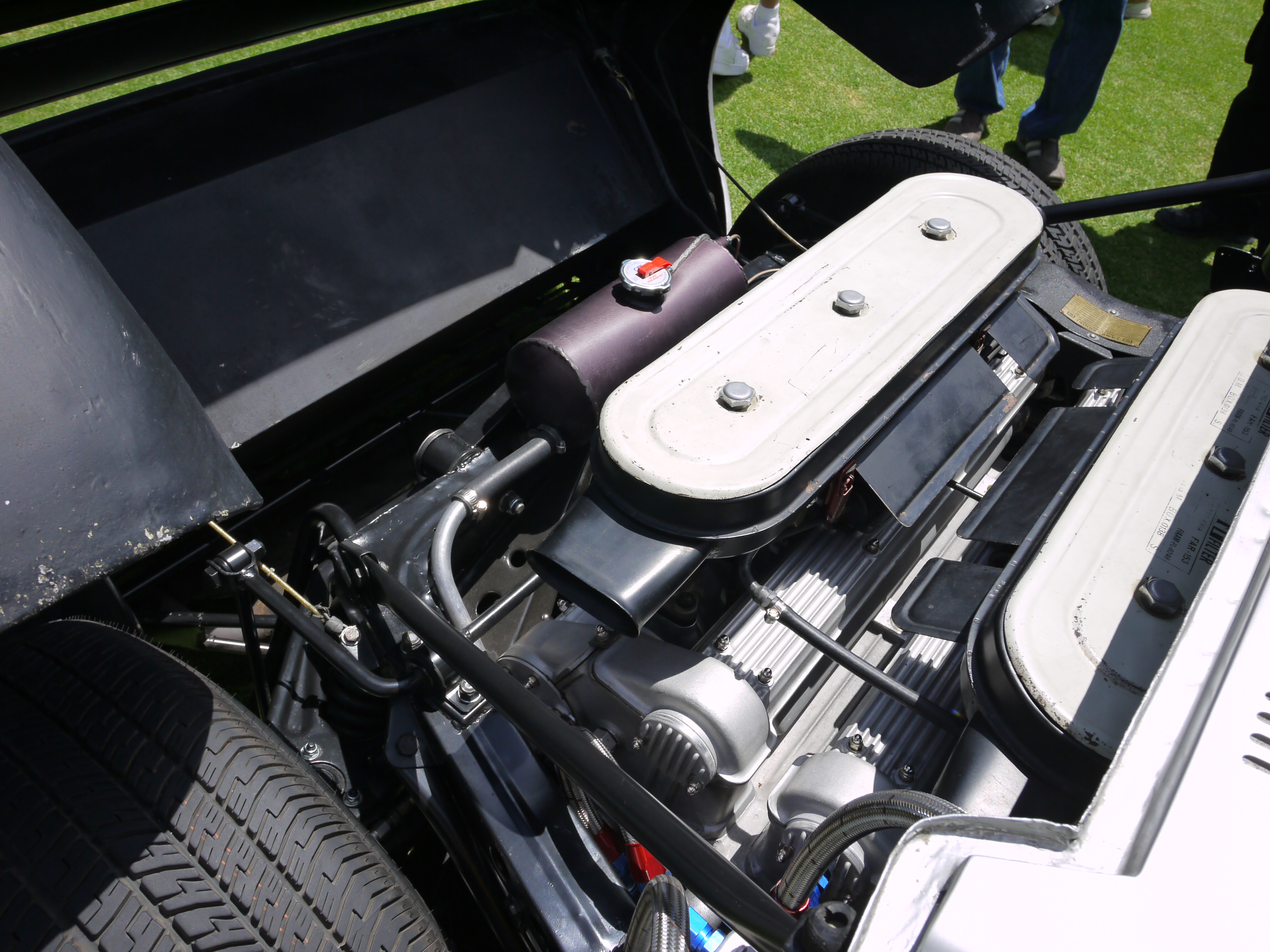 Lamborghini Miura engine bay. Photograph taken at 2010 Concorso Italiano.